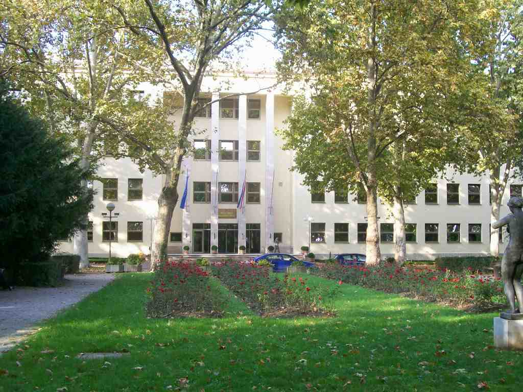 Croatian Defense Ministryin Zagreb (main entrance)